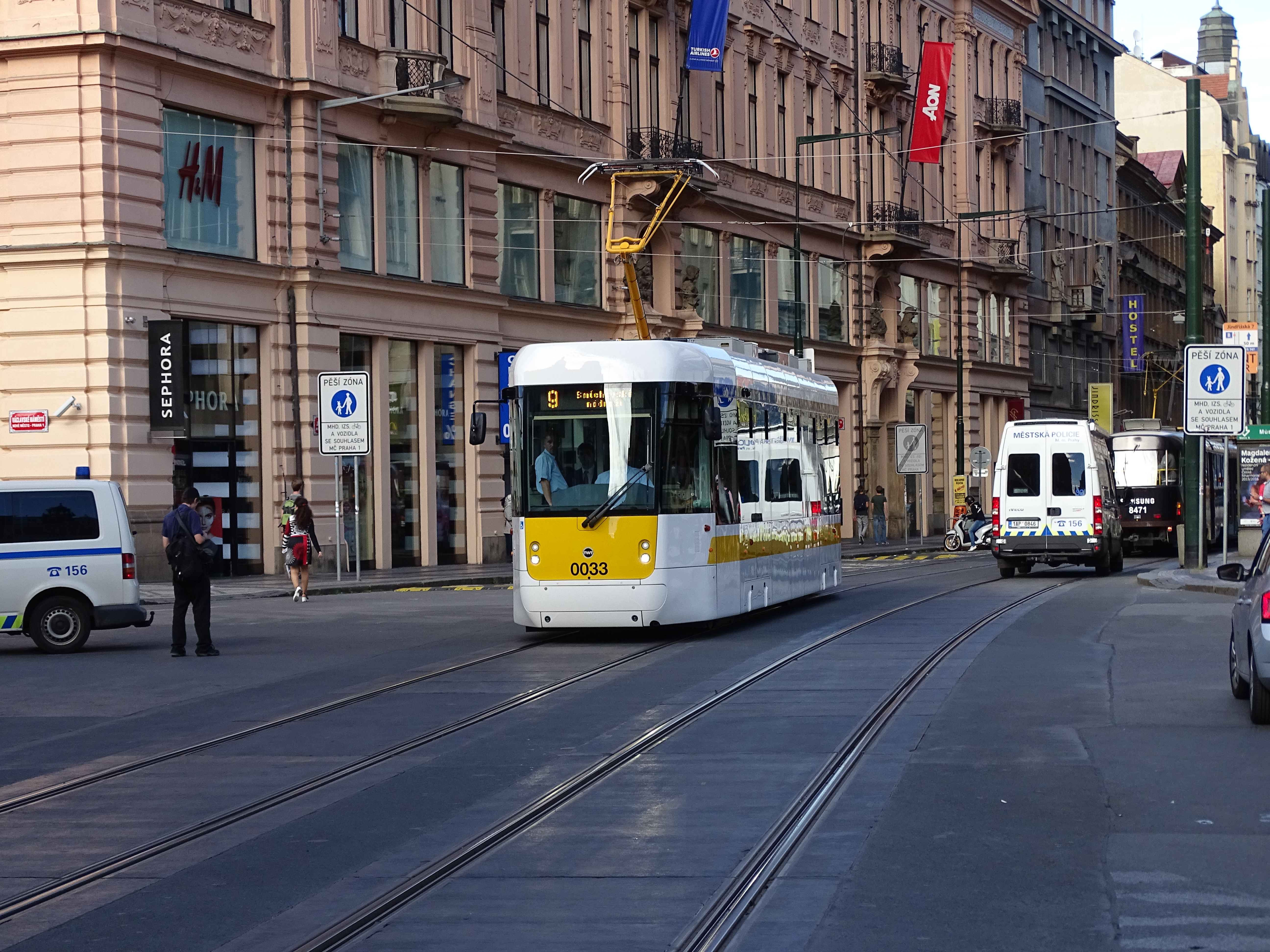 Prague-New Town, Czech Republic. Wenceslas Square, Jindřišská street, tram EVO1.